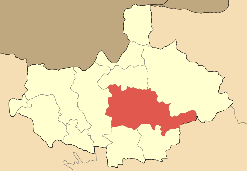 Locator map of Kilkis municipality (Δήμος Κιλκίς) at Kilkis perfecture, Greece.